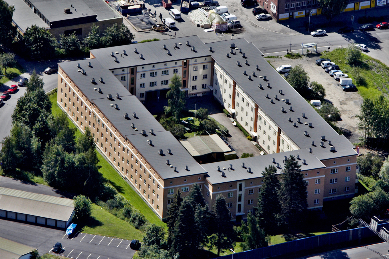 Borettslaget Etterstad 1, det første OBOS-borettslaget, stod ferdig i 1931. Det ble på folkemunne kalt "Etterstadslottet".